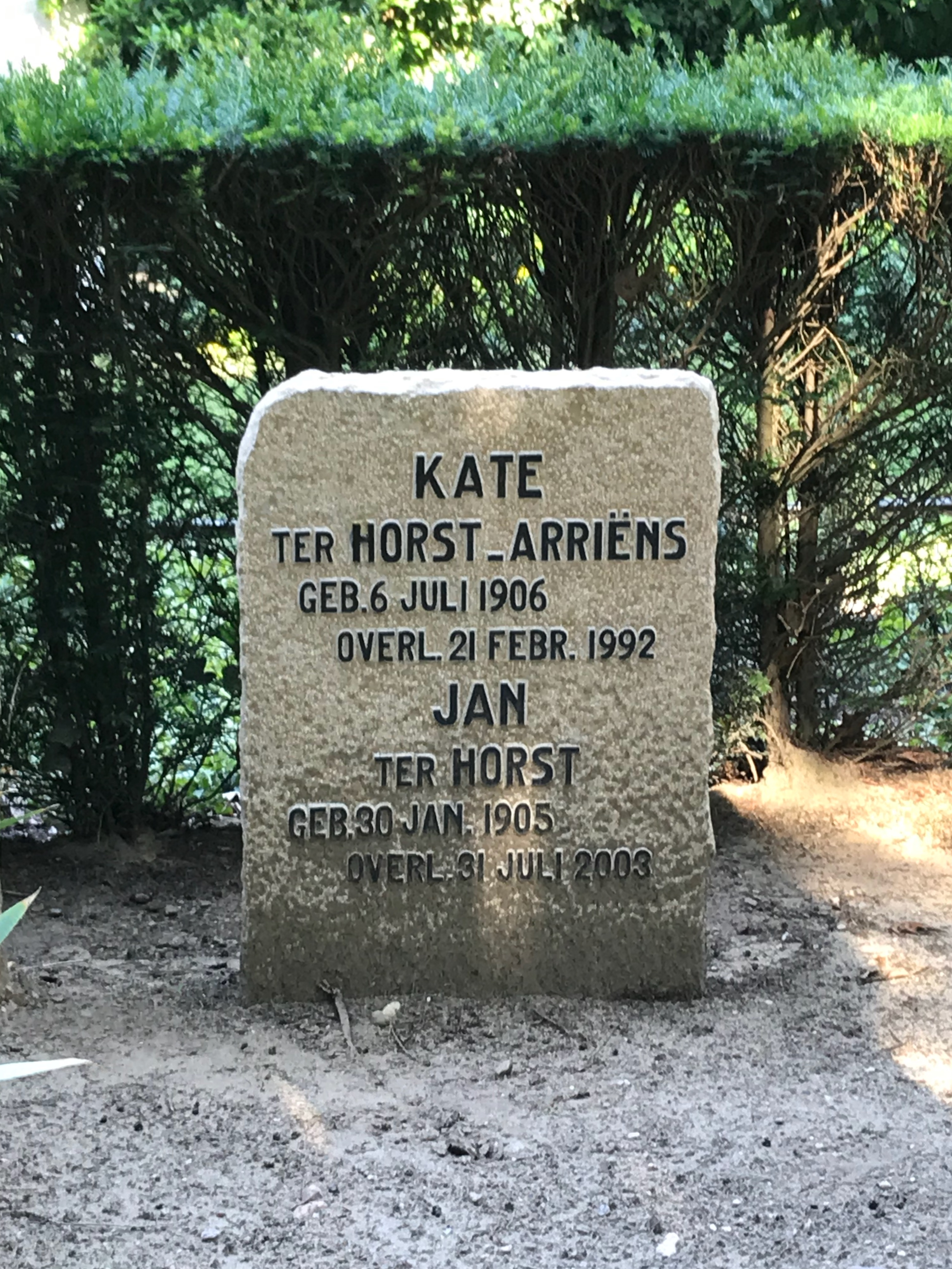 The grave of Kate ter Horst at Oosterbeek